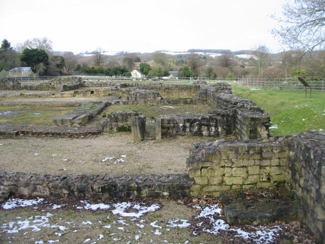 Remains of a Roman Basilica and Forum The heart of the former Roman city of Venta Silurum.